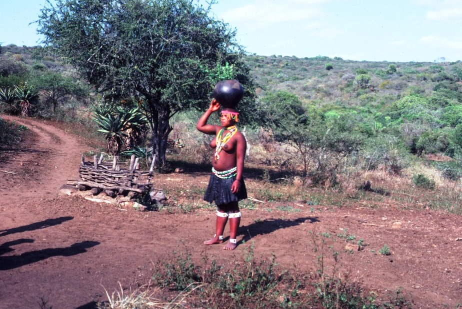 Zulu village, South Africa.